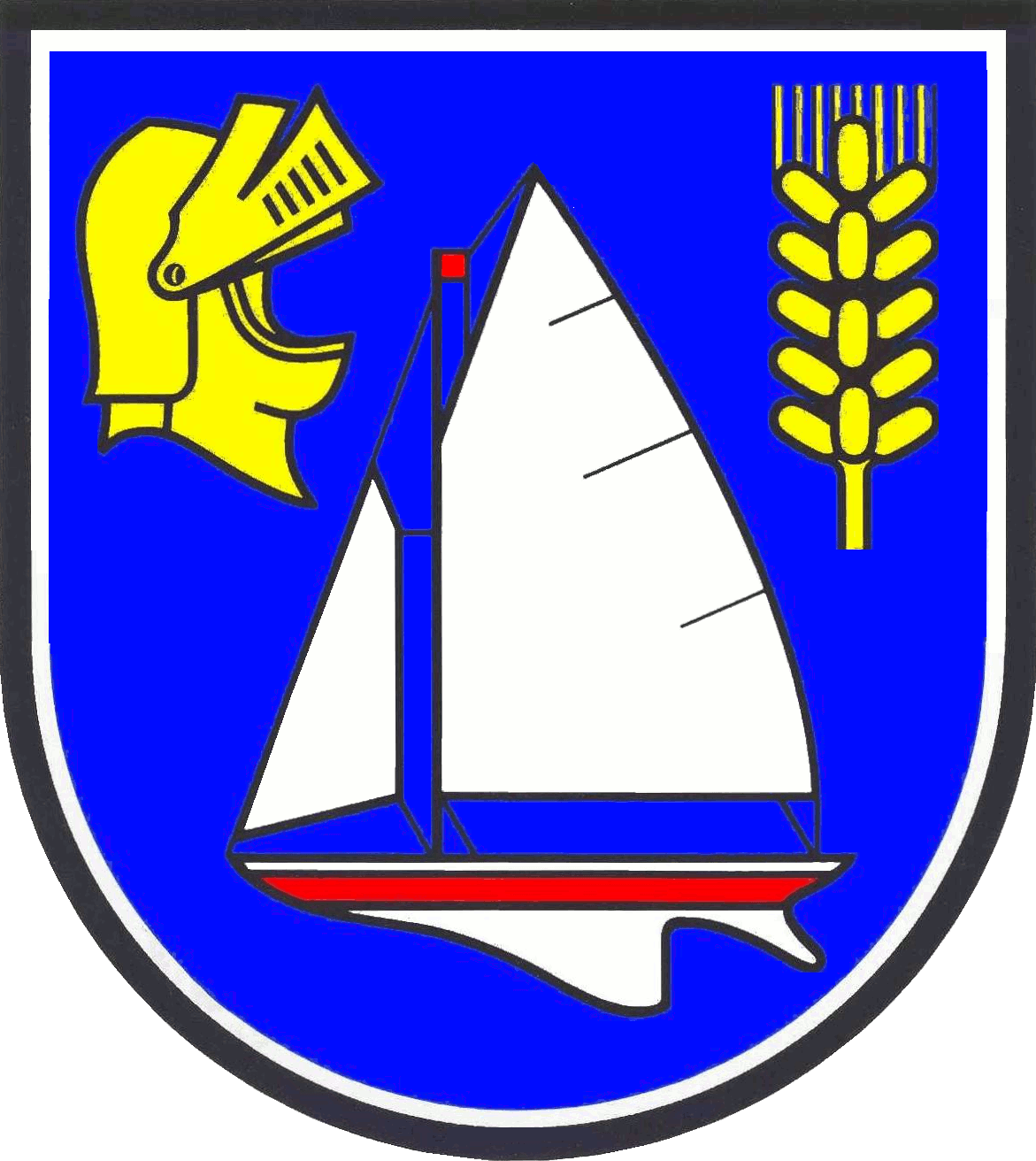 Coat of arms of the municipality Damp in Schleswig-Holstein, Germany.